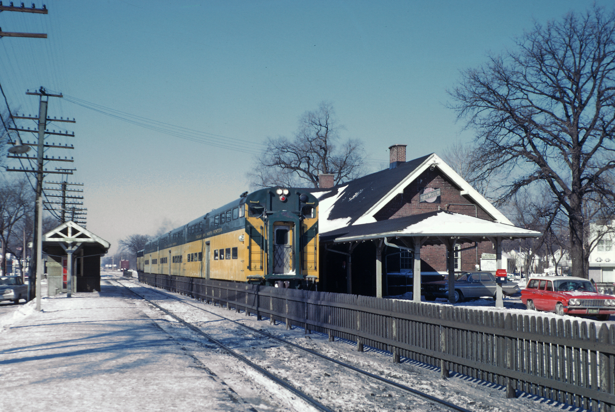 A Roger Puta Photograph